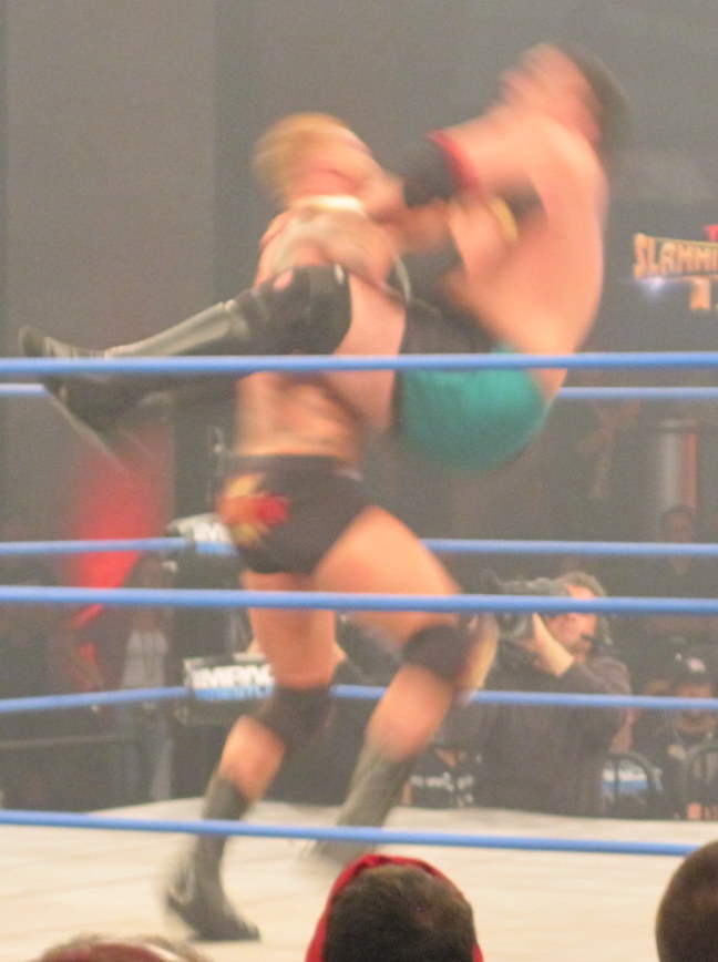 Sunday, June 12, 2011. Universal Orlando